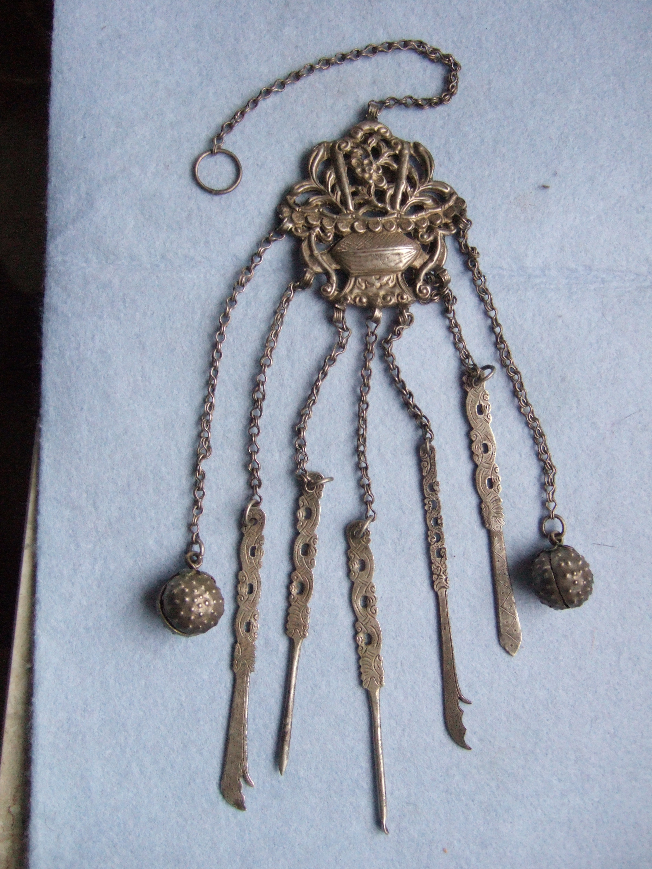 Tibetan Chab chab for ladies (silver) early 20th century